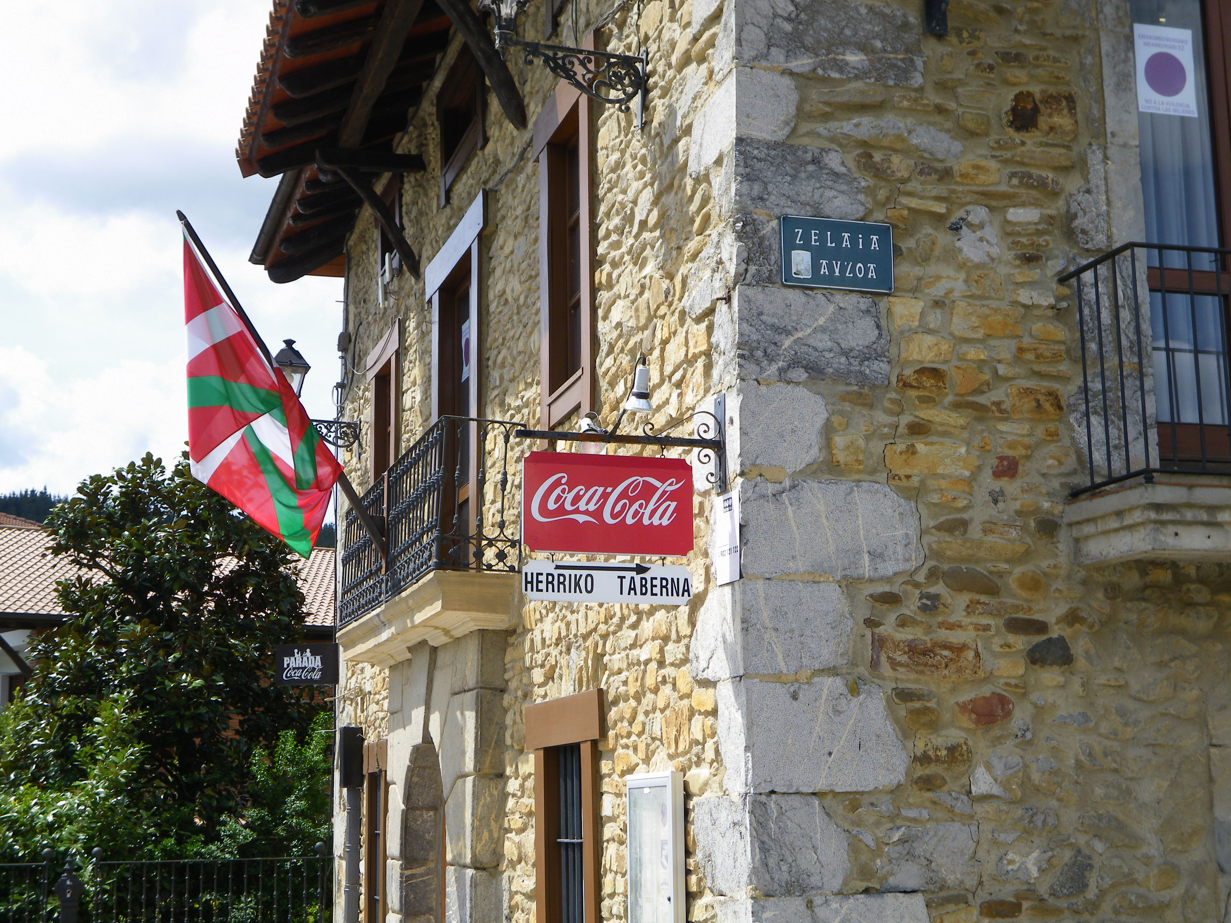 Town hall of Arantzazu, Arratia, Biscay, Basque Country.